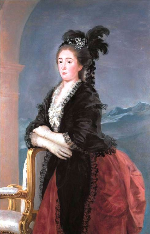 Portrait of María Teresa de Vallabriga, morganatic wife of the Infante Luis